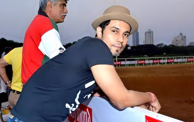 Randeep Hooda at India's first Raymond National and Junior National Equestrian Championship for children at Amateur Riders Club (ARC) in Mumbai.